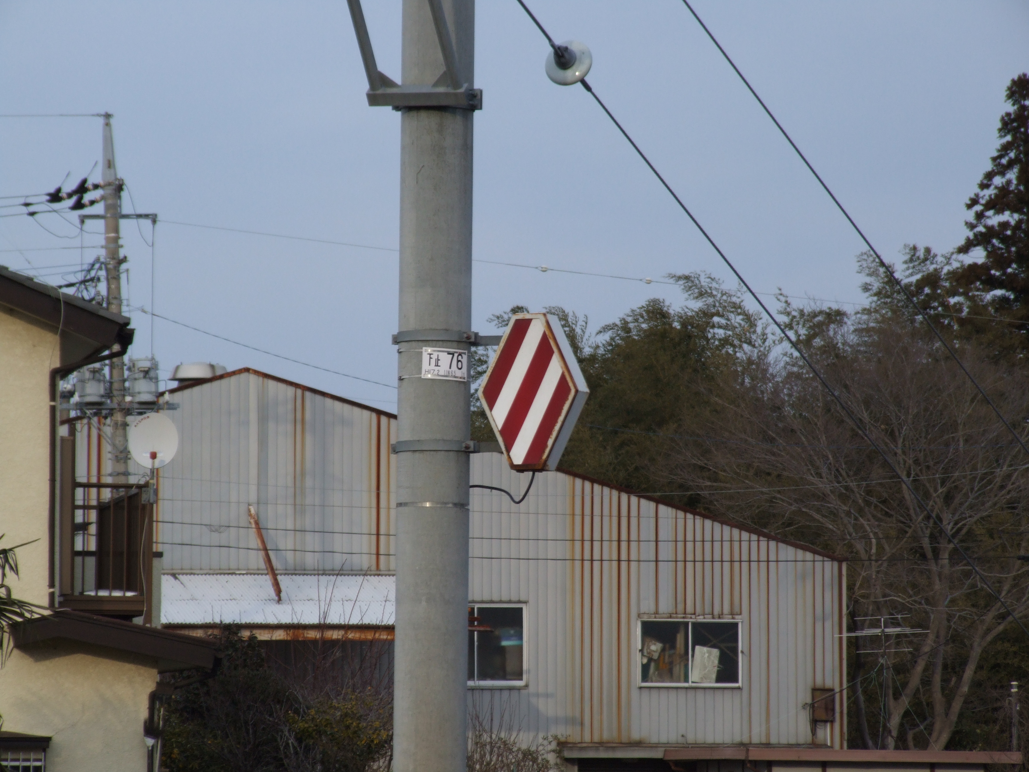 Sign of an AC/DC section